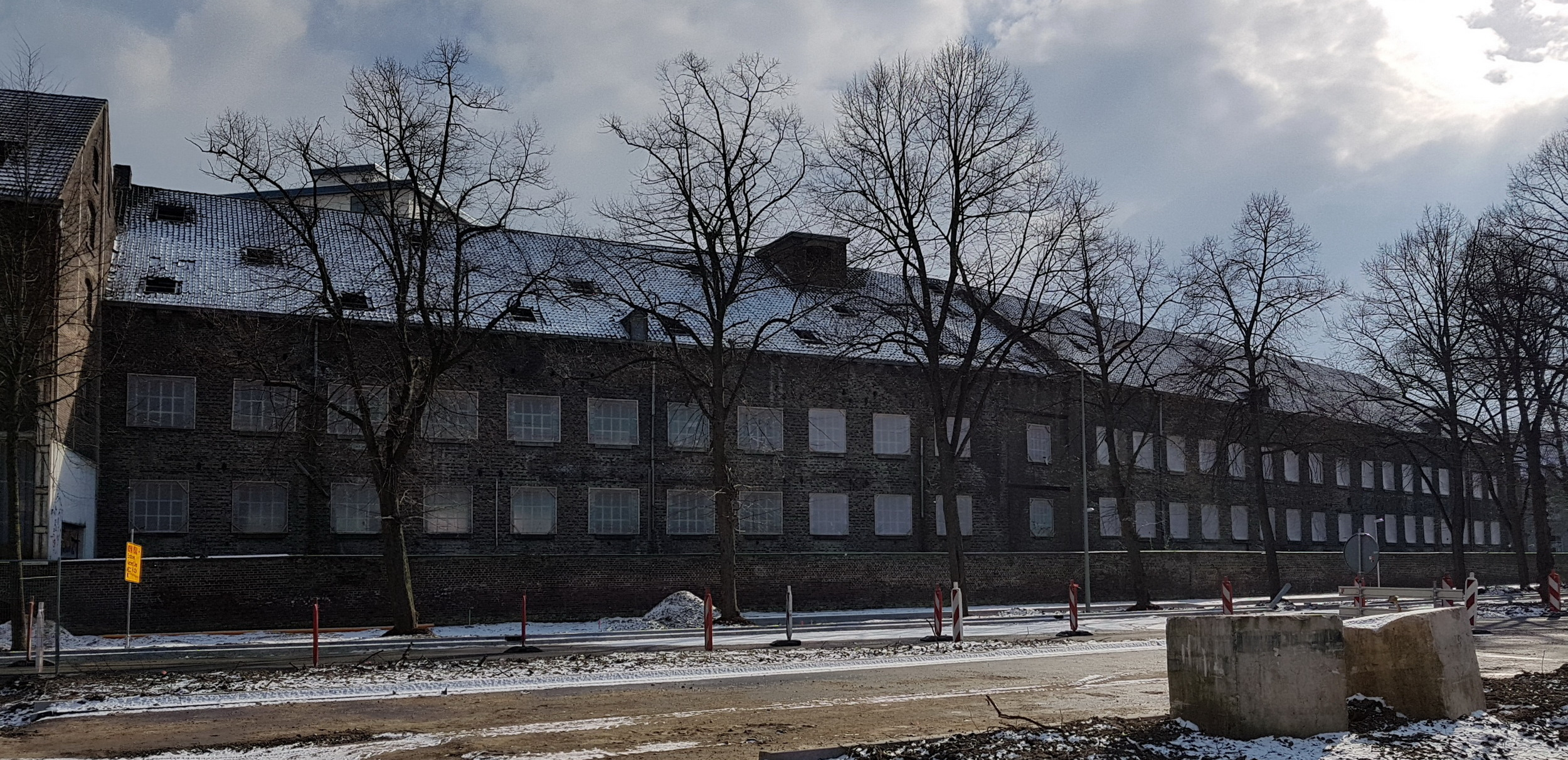 Reconstruction of Frontensingel in Maastricht, the Netherlands. In the background the Mouleurs buildings of former Royal Sphinx potteries.